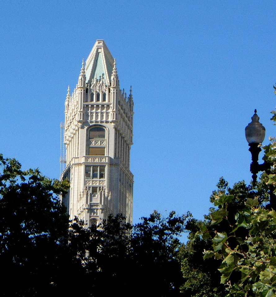 Tower of the Cathedral Building, Broadway and Telegraph, Oakland